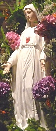 Our lady of Pellevoisin